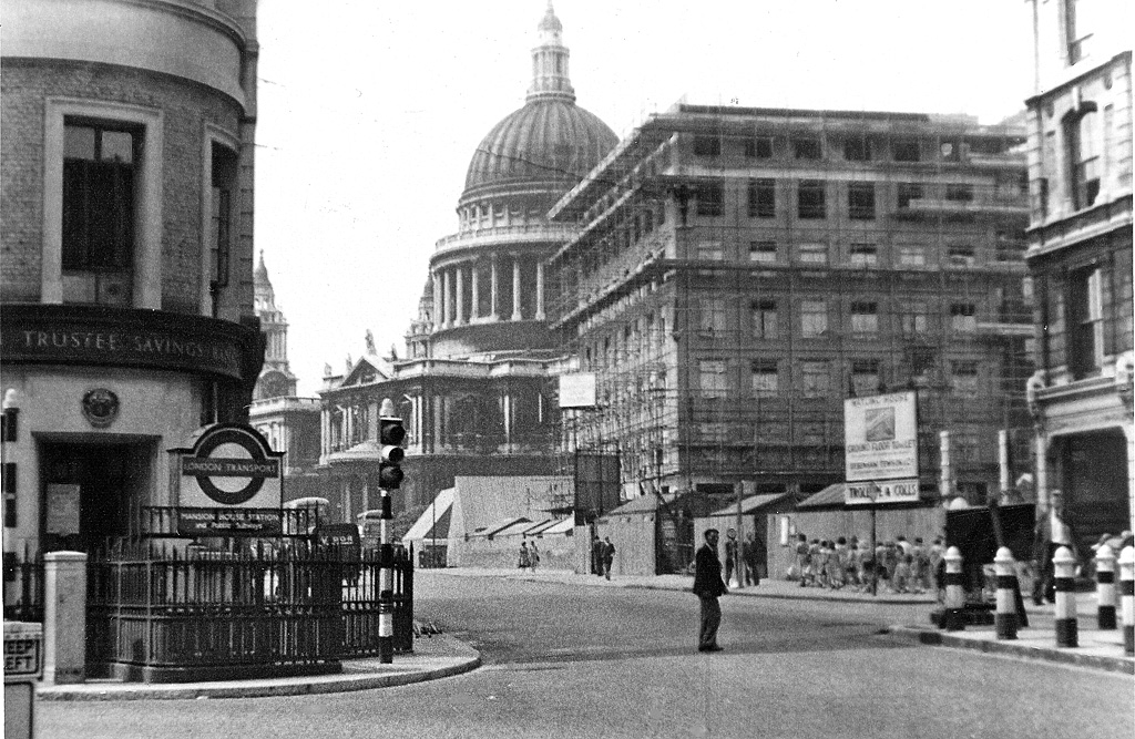 Mansion House Station: 1955 view of entrance on Cannon Street. View westward, on Cannon Street towards St Paul's Cathedral, Queen Victoria Street being to the left. At that time the rebuilding of the City after the Blitz was only beginning.